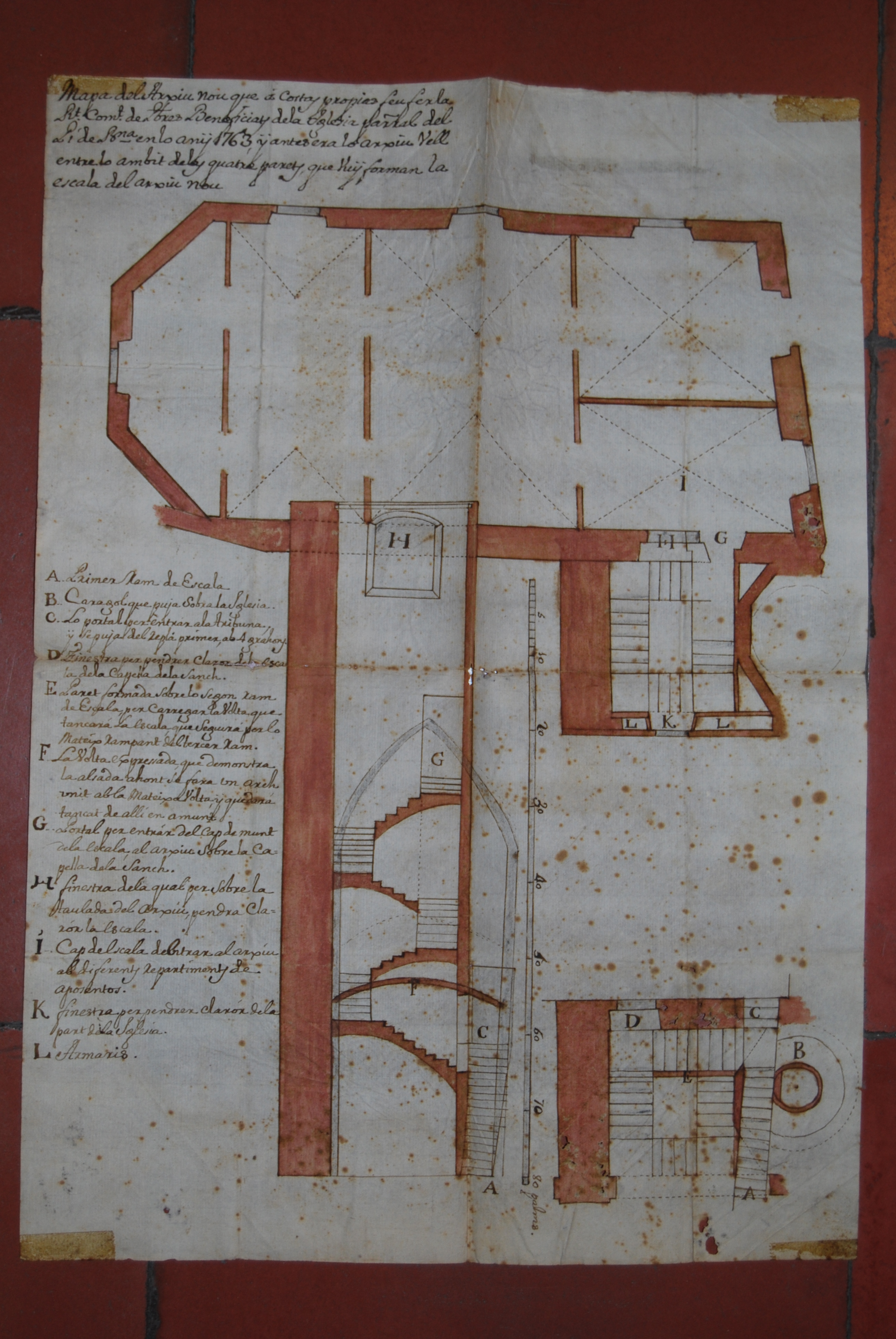 Construction project New Archive of St. Maria del Pi. Andreu Bosch i Riera, 1764